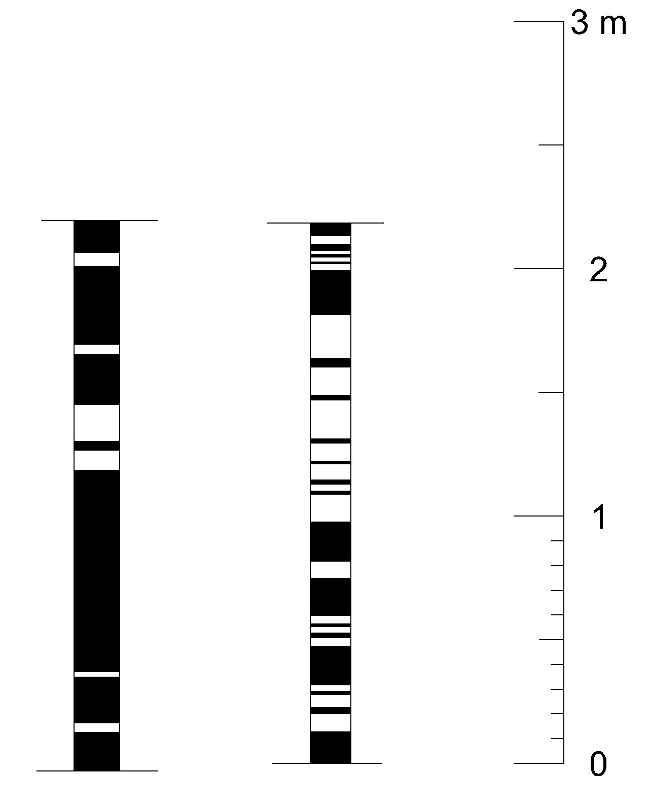 Vertical cutaway diagram of Schichtenkohlenfloez III (lit. layer coal seam No. 3), Schichtenkohlenflöz III is the bottom part of the seventh seam (top down, out of eleven total) of the Zwickau hard coal deposit in Saxony, Germany. This diagram illustrates clearly how different built a coal seam can be within a few meters, with horizontal distance about some 18 meters. Drawn according to a illustration in Von den Brückenbergschächten zum VEB Steinkohlenwerk Karl Marx Zwickau 1859-1959. Erfurt 1960. page 216. Black=coal; white=intercalated bed.